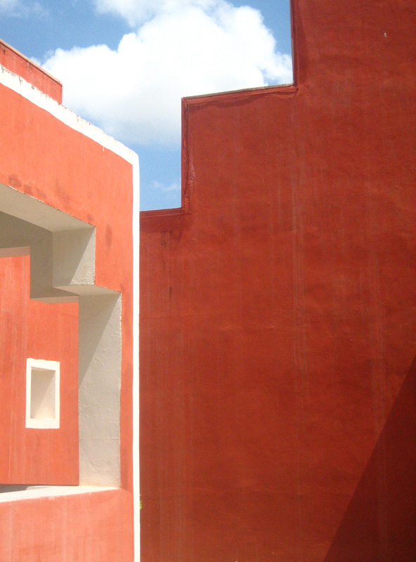 From an internal courtyard of architect Charles Correa's Jawahar Kala Kendra in Jaipur, built in 1993.